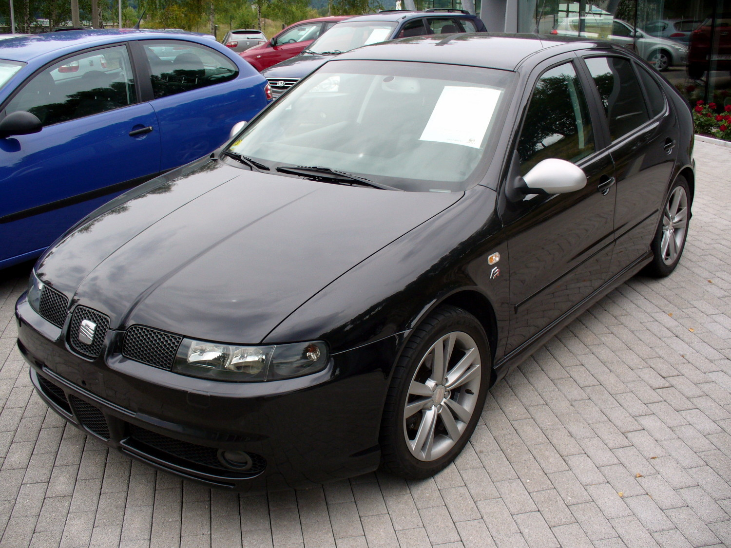 Seat Leon FR